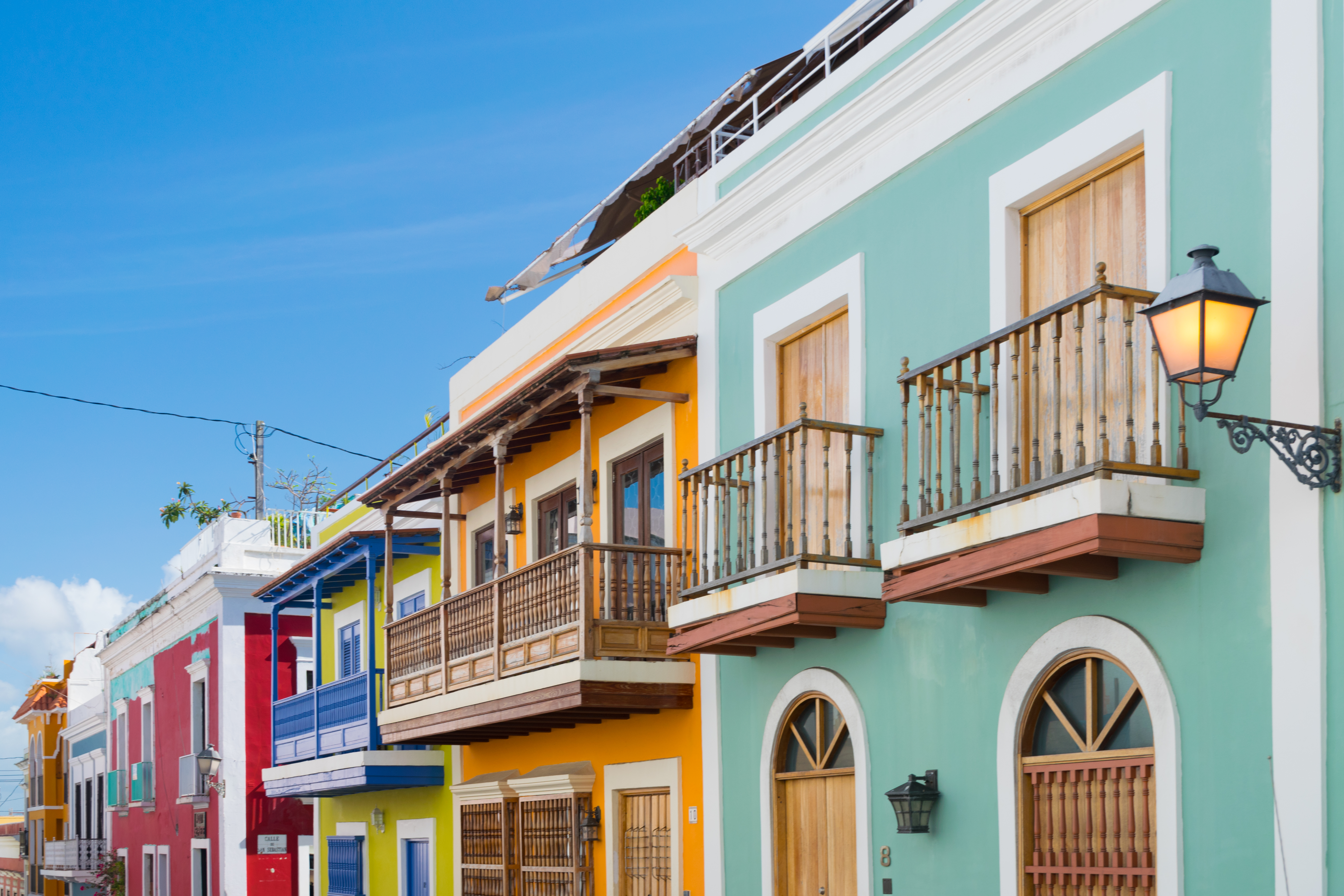 The Colors of Old San Juan